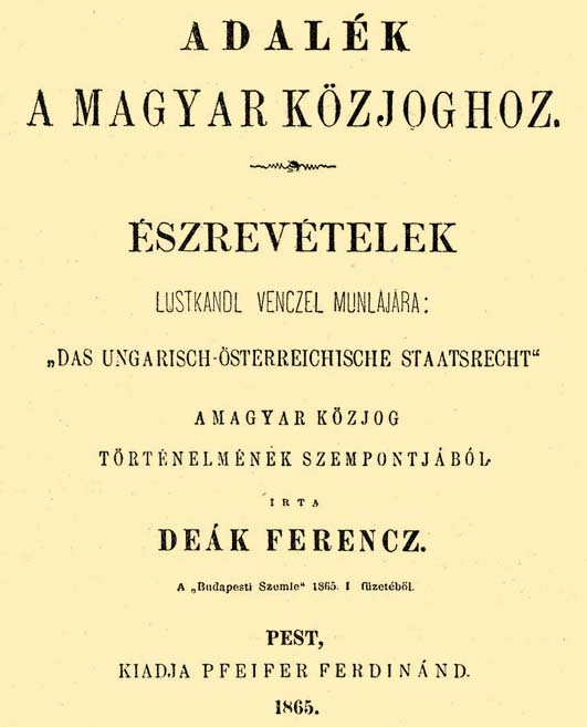 Article of Ferenc Deák, in Budapesti Szemle, April 1865 ("Adalék a magyar közjoghoz / Addendum to the Hungarian public law")